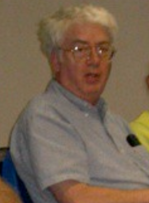 Donald Harlow in a meeting at the 2005 Esperanto National Congress in Austin, Texas; picture has been cropped for formatting purposes.